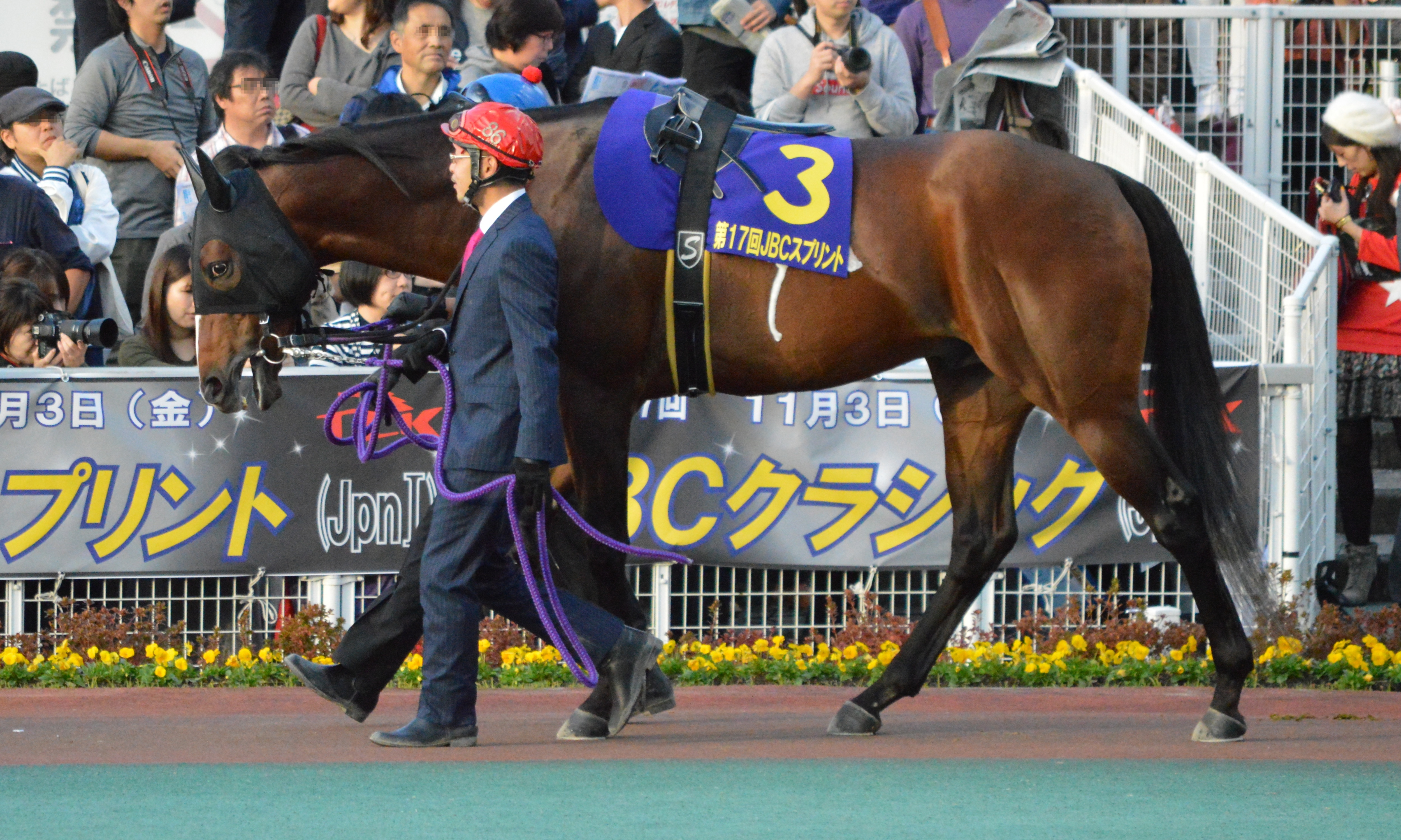 Japanese race horse Kitasan Mikazuki at Ohi racecourse. Ohi (JPN) 3 Nov 2017 JBC Sprint (Local Grade 1) (Dirt) (3yo+) 6f Muddy RankHorse NameOddsAgeWgtJockeyTrainer1stNishiken Mononofu (JPN)7/2H69-0Norihiro YokoyamaYasushi Shono5thKitasan Mikazuki (JPN)59/10H79-0Kenichi ShigetaKenji SatoOthers are omitted. (16 horses entered in a race.)